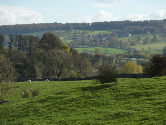 View from Conksbury to Youlgrave lane The view is east, and the village on the far slope is Stanton in Peak